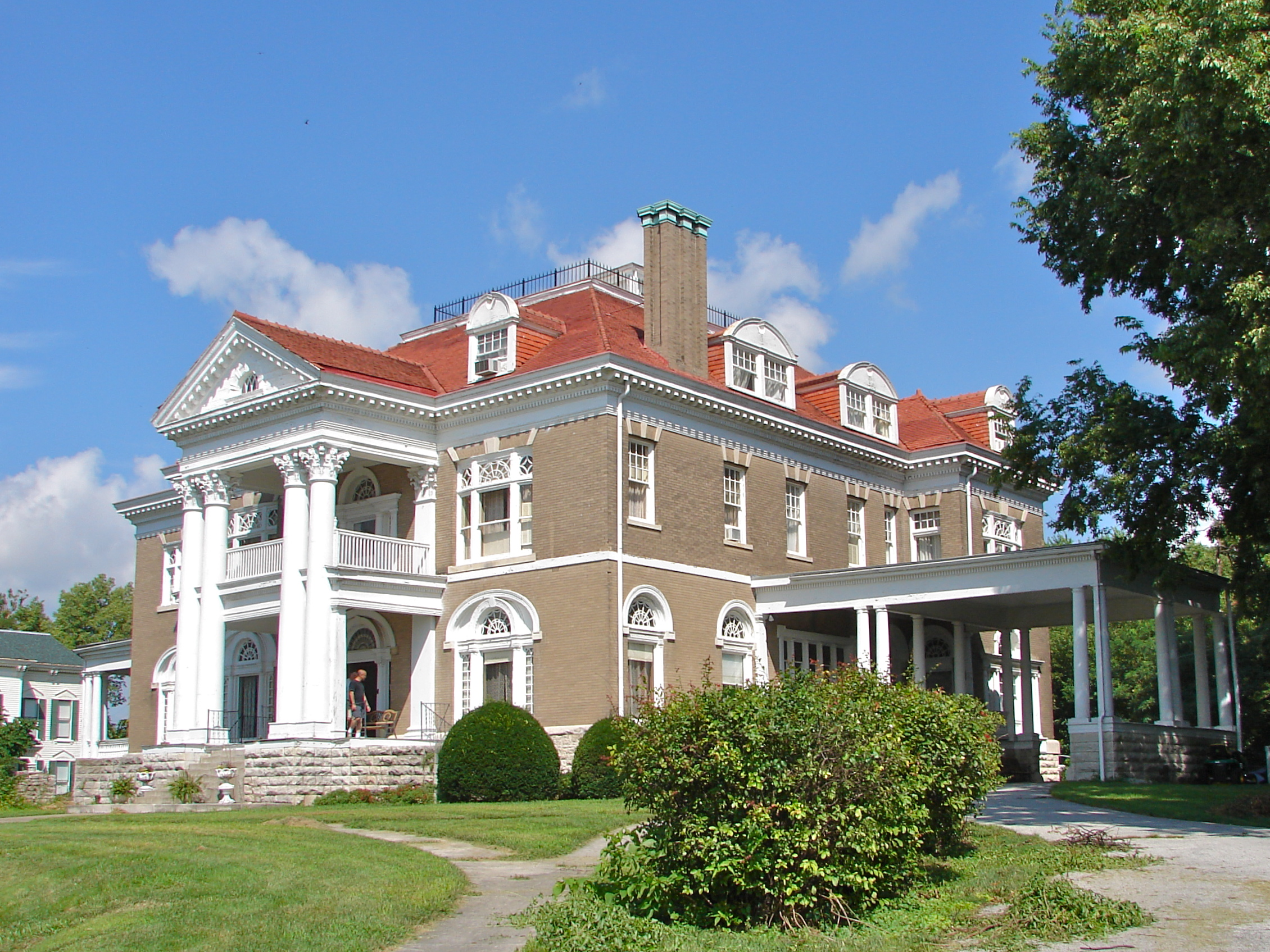 Rockcliffe Mansion on the NRHP since September 18, 1980, at 1000 Bird St., Hannibal, Missouri on top of a rocky hill. The name Rockcliffe is very appropriate. Built by a lumber magnate. Sate empty for 40 + years, now a B&B in Mark Twain's hometown.